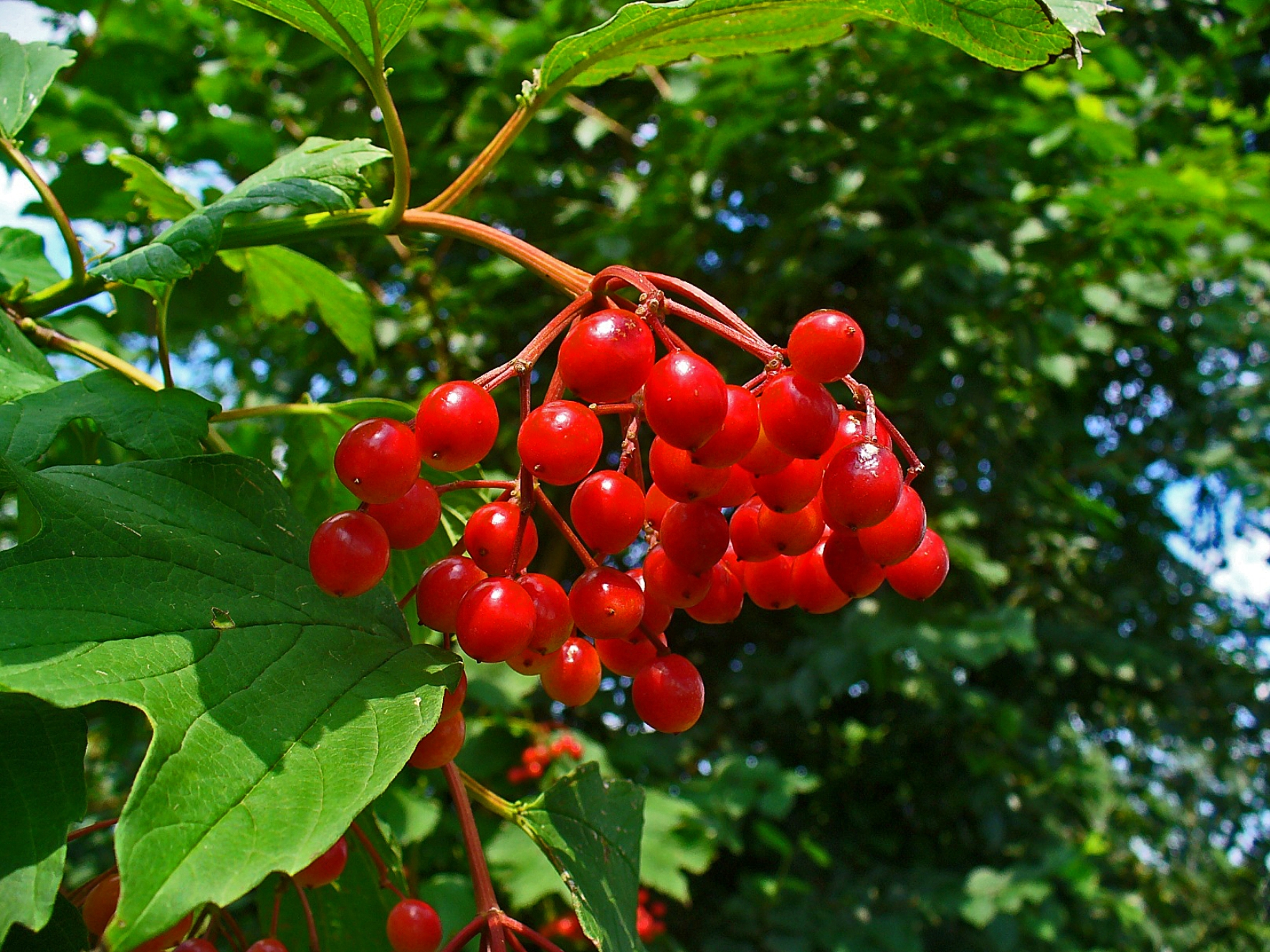 Viburnum opulus, Adoxaceae, Guelder Rose, Water Elder, European Cranberrybush, Cramp Bark, Snowball Tree, fruits. Karlsruhe, Germany.